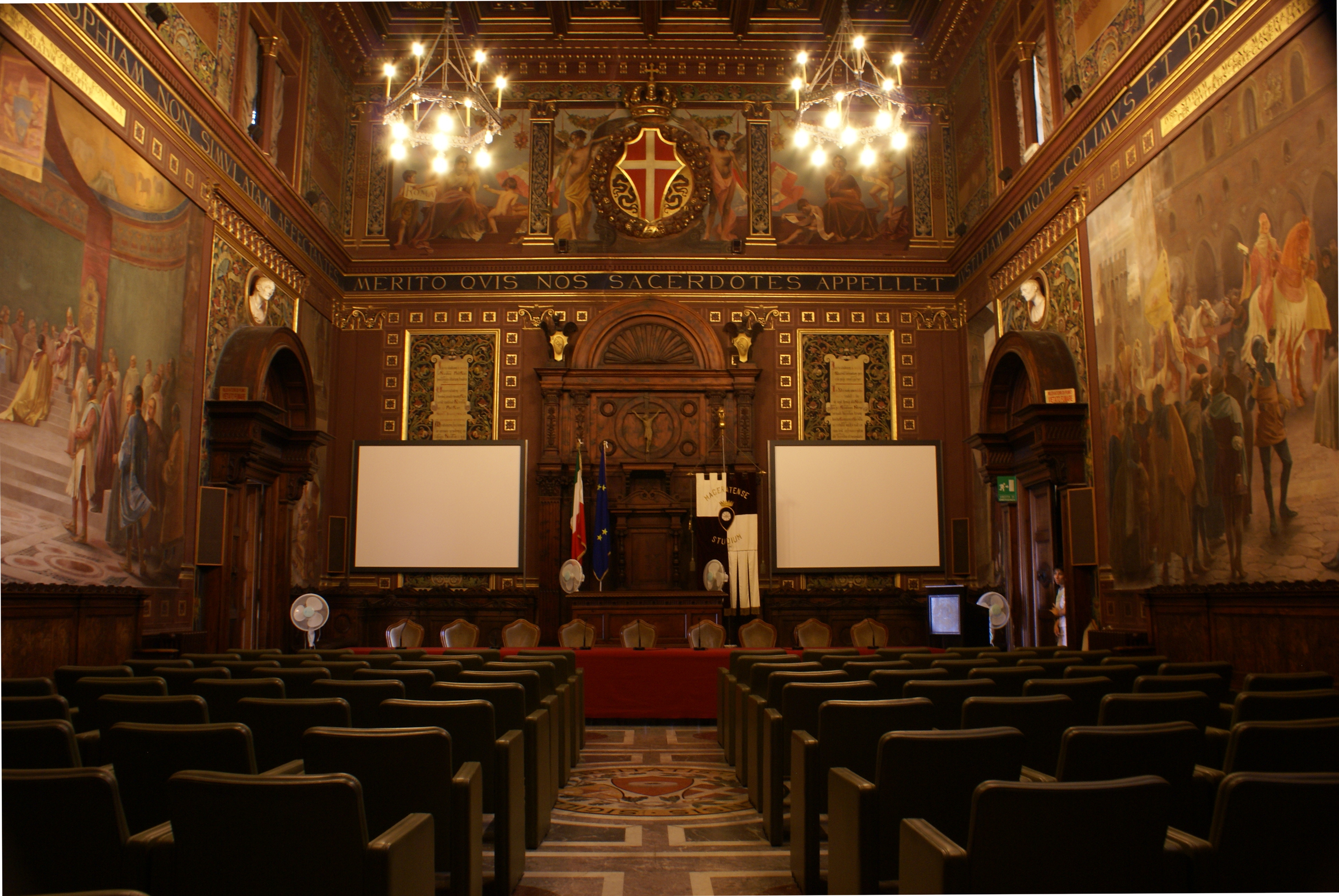 The University of Macerata's (Wikipedia: University of Macerata) grand hall, the "Aula Magna 'O. Carelli'".